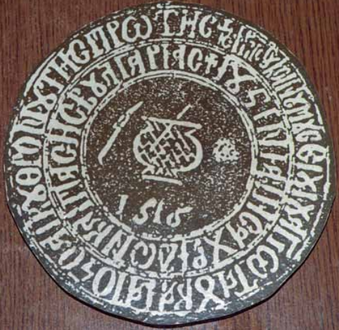 Seal of the Ohrid Bulgarian Archbishopric Seal